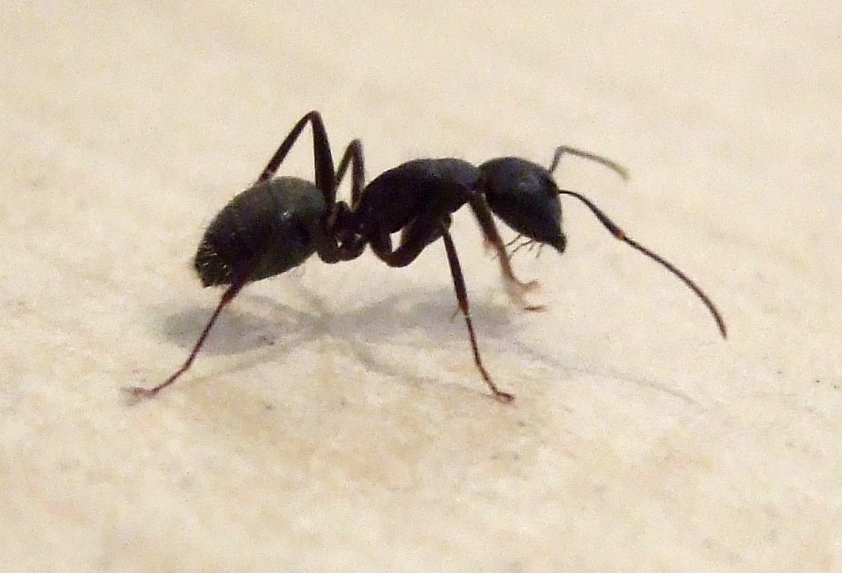 Live Camponotus pennsylvanicus worker.